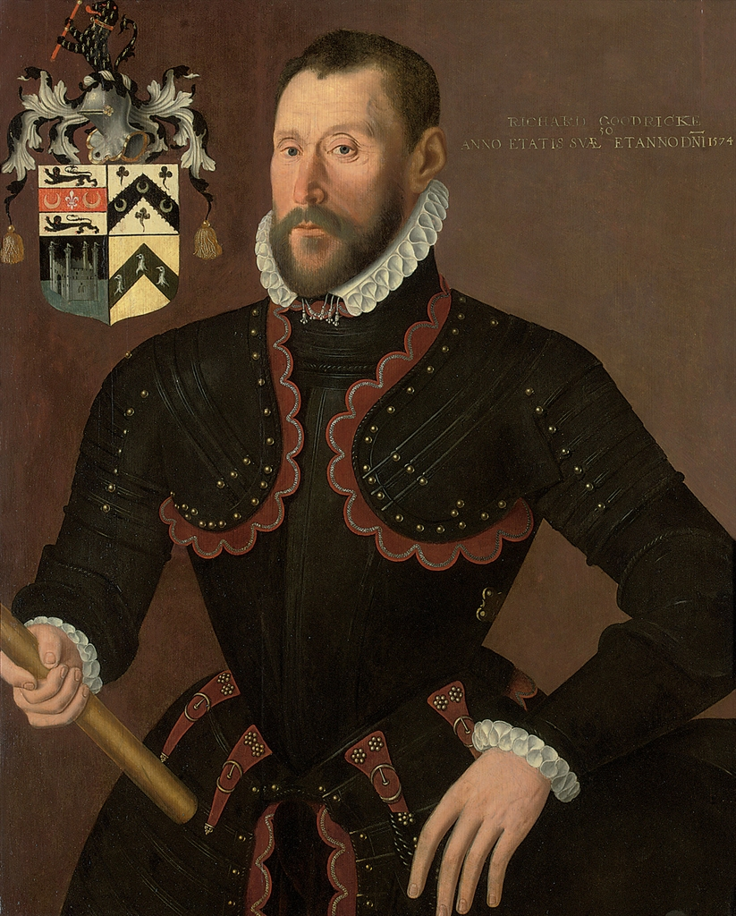 Richard Goodricke senior of Robston (1524-1581/2), later High Sheriff of Yorkshire, aged 50 in 1574, in armour and holding baton of command.